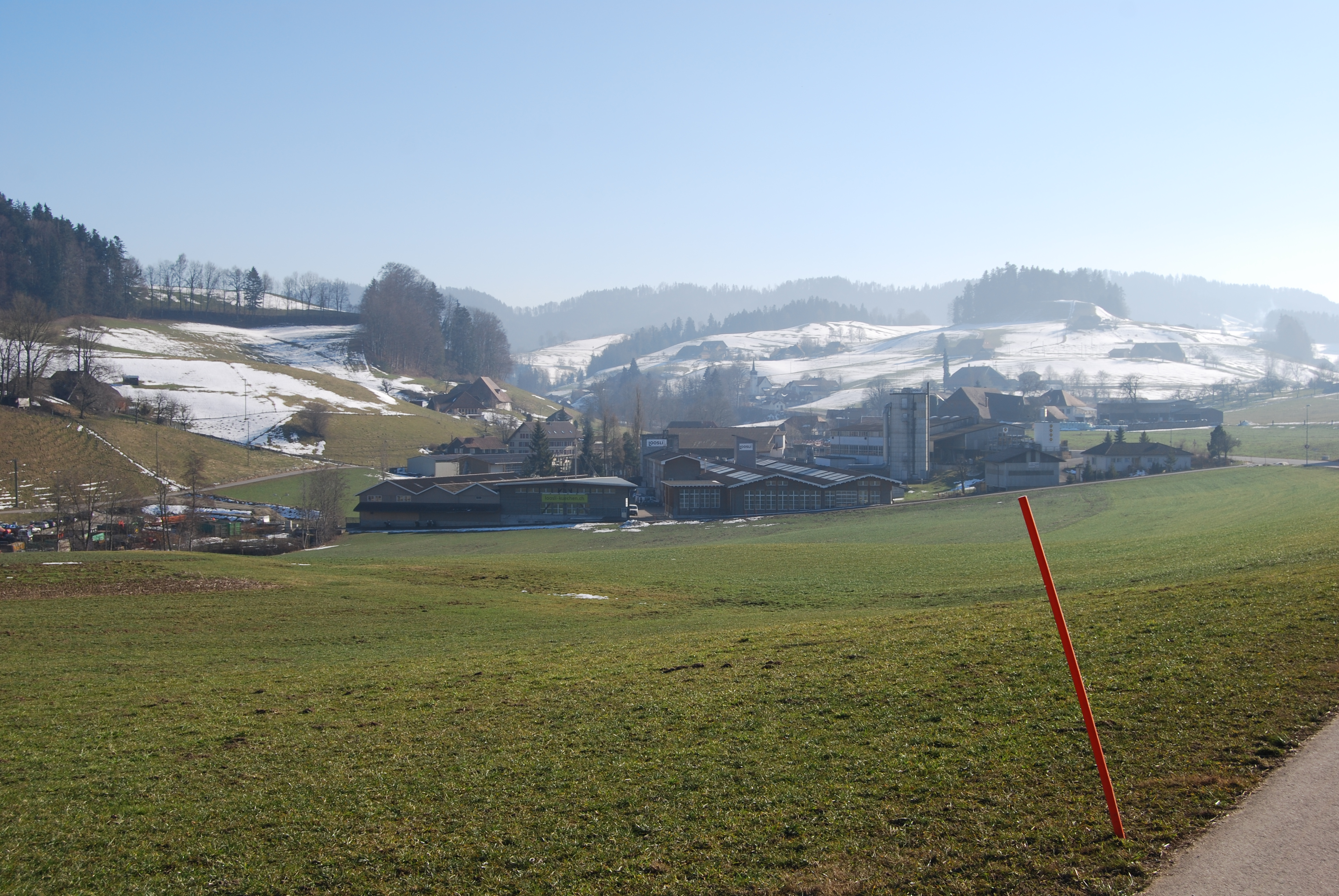 Wyssachen, canton of Bern, SwitzerlandEsperanto: Wyssachen, Kantono Berno, Svislando